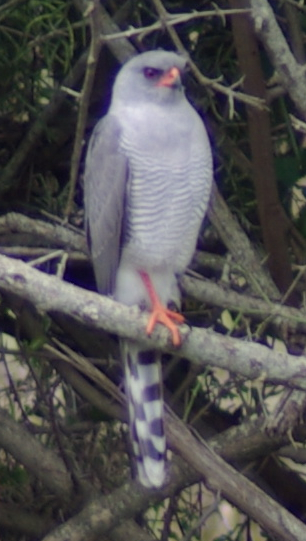 Gabar Goshawk, Micronisius gabar aequatorius, Sweetwaters Game Reserve, Kenya. The time stamp is 10 hours too early. Thanks to JMK for identification.